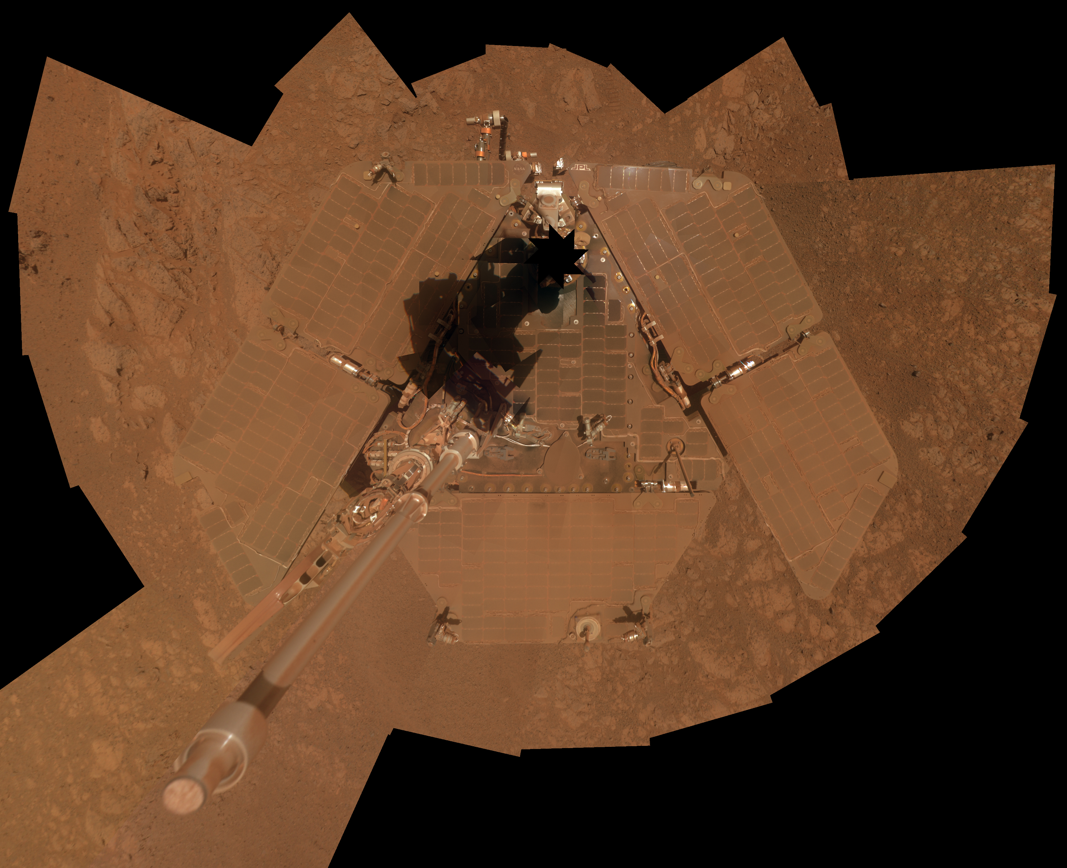 PIA17759: Self-Portrait by Opportunity Mars Rover in January 2014 NASA's Mars Exploration Rover Opportunity recorded the component images for this self-portrait about three weeks before completing a decade of work on Mars. The rover's panoramic camera (Pancam) took the images during the interval Jan. 3, 2014, to Jan. 6, 2014, a few days after winds removed some of the dust that had been accumulating on the rover's solar panels. Opportunity landed on Mars on Jan. 25, 2004, Universal Time (Jan. 24, 2004, PST) for a mission that was planned to last three months. It is still active 10 Earth years later. This image is presented as a vertical projection. The mast on which the Pancam is mounted does not appear in the image, though its shadow does.